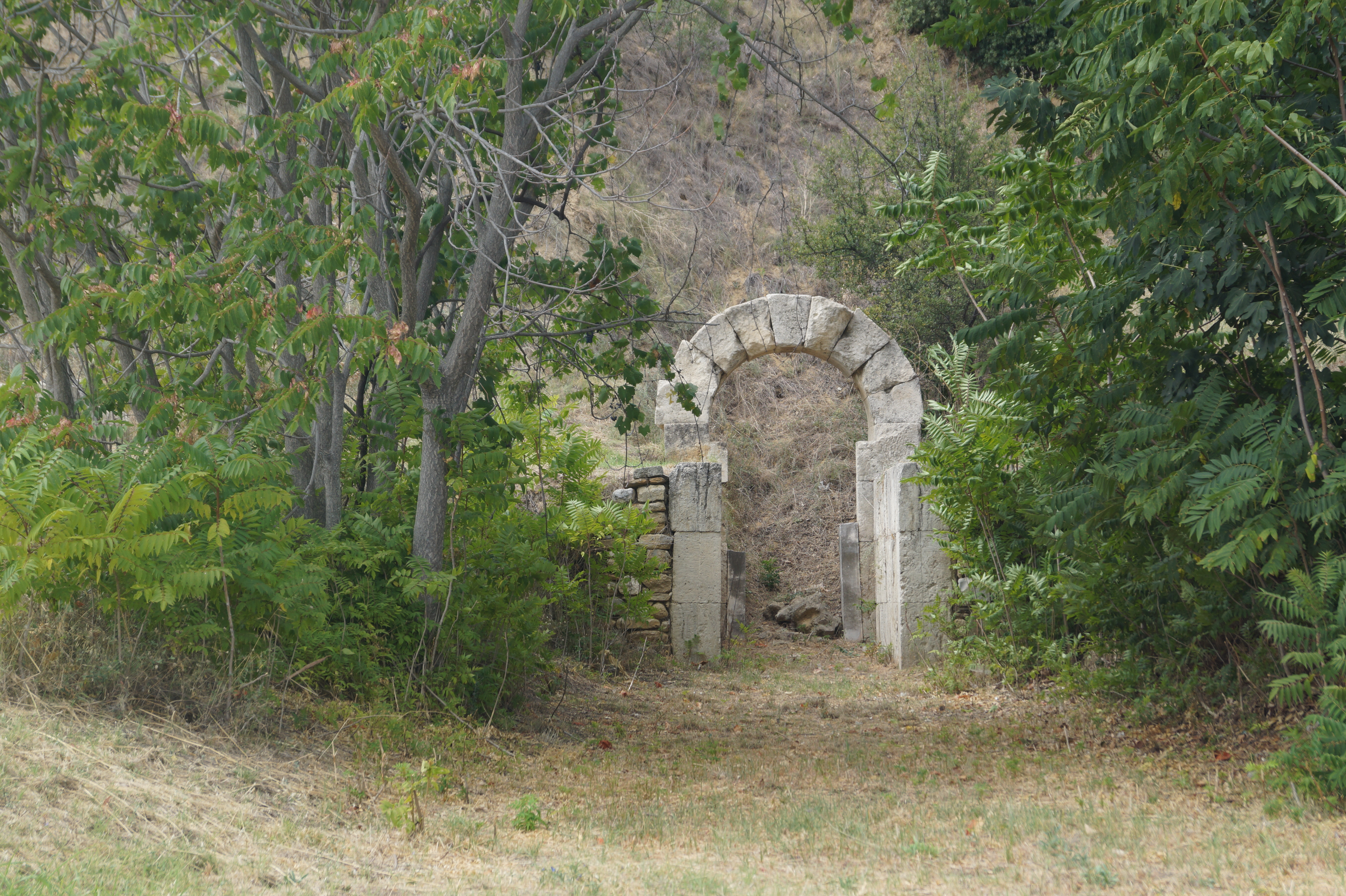 Sykia, Makedonia, Greece: Entrance of Macedonian Tomb 1 in Sykia.